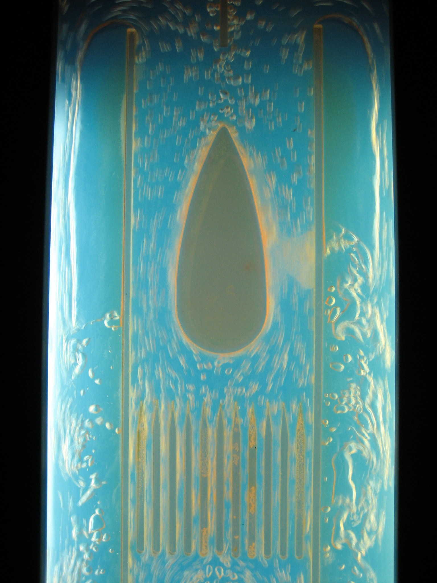 Flow visualization around an airfoil-shaped object visualized with air bubbles, photographed at Shanghai Science and Technology Museum